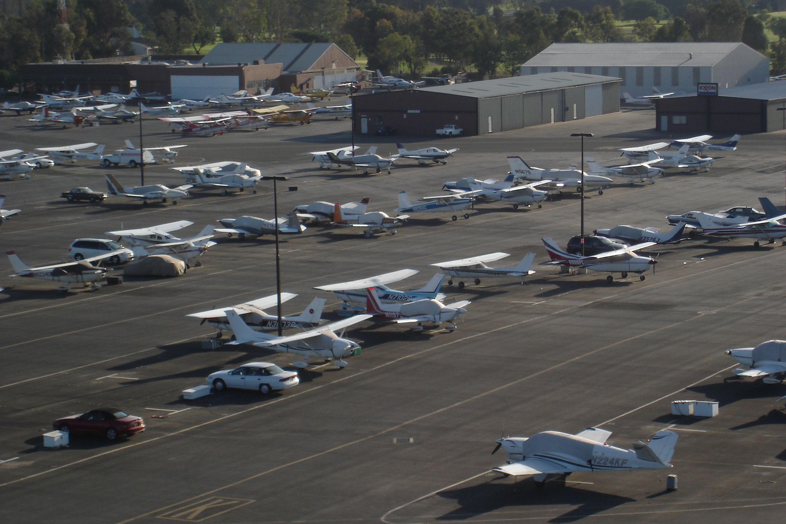 Palo Alto airport on August 5, 2005 taken from N739TW while on final approach to Runway 31.